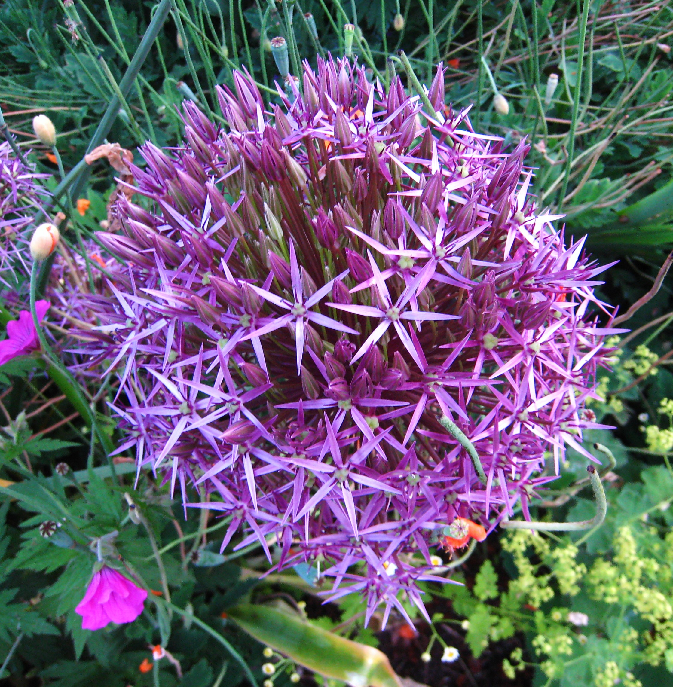 Purple star-shaped flowers of the Allium christophii.